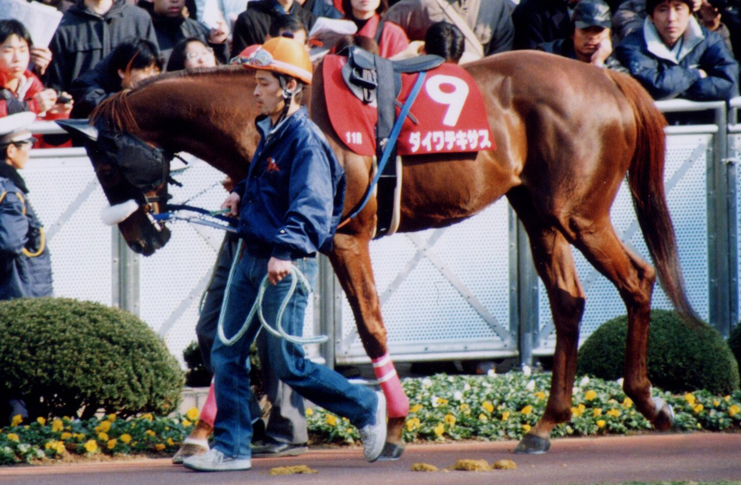 Daiwa Texas (horse)